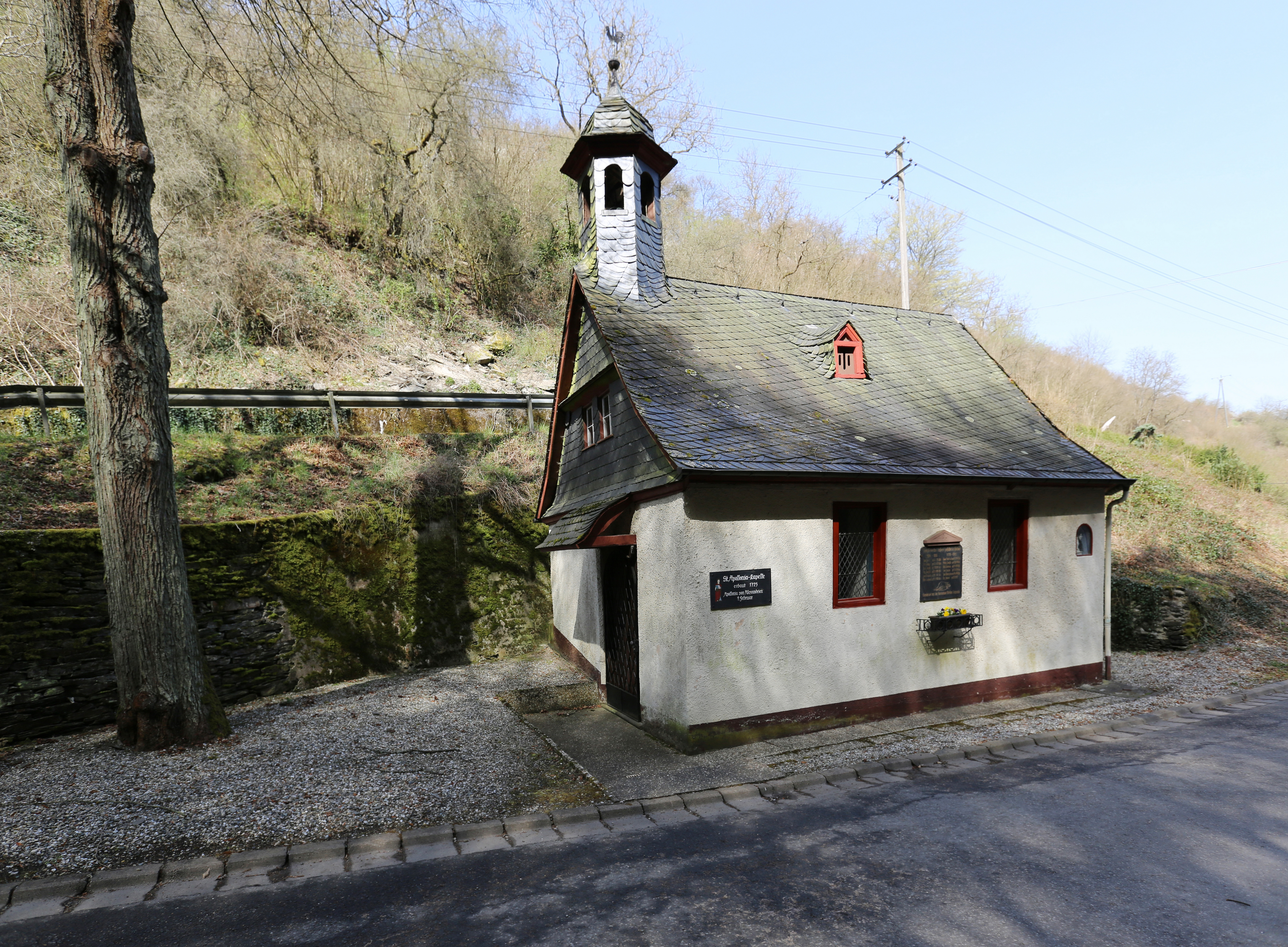 Saint Apollonia's Chapel (St.-Apollonia-Kapelle) am Weinberg 60 (earlier half of the 18th century). Oberwesel Weiler-Boppard, Rhineland-Palatinate, Germany